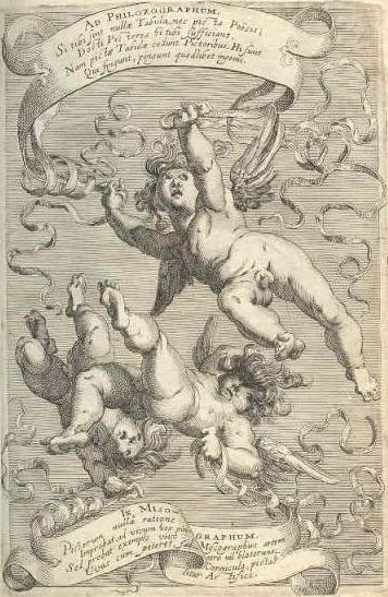 Three Putti. engraving. From Hendrick Hondius (ca. 1610) Pictorum aliquot celebrius præcipue Germaniæ infere oris, effigies, Hagæ-Comitis: Henrici Hondii.